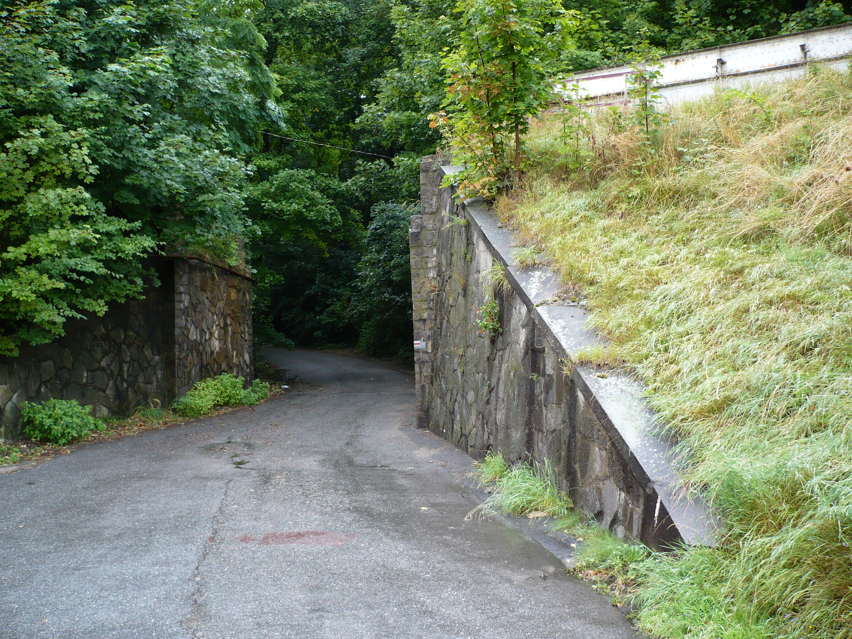 Railway bridge by abolished Railway Station Złoty Stok (Reichenstein), Lower Silesia in Poland